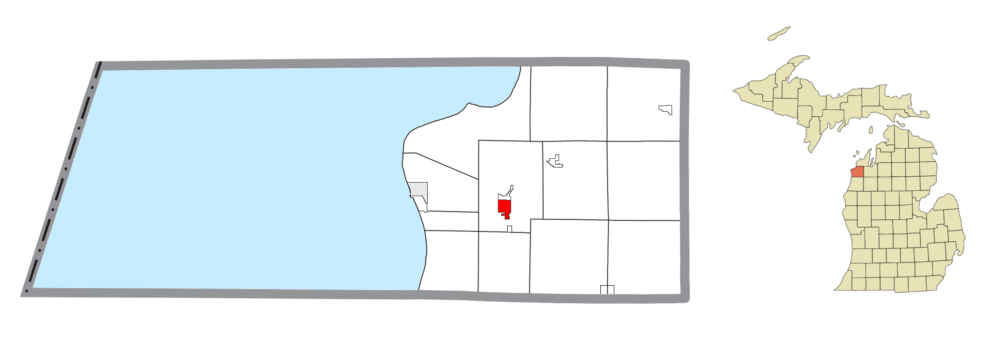 Benzonia, MI